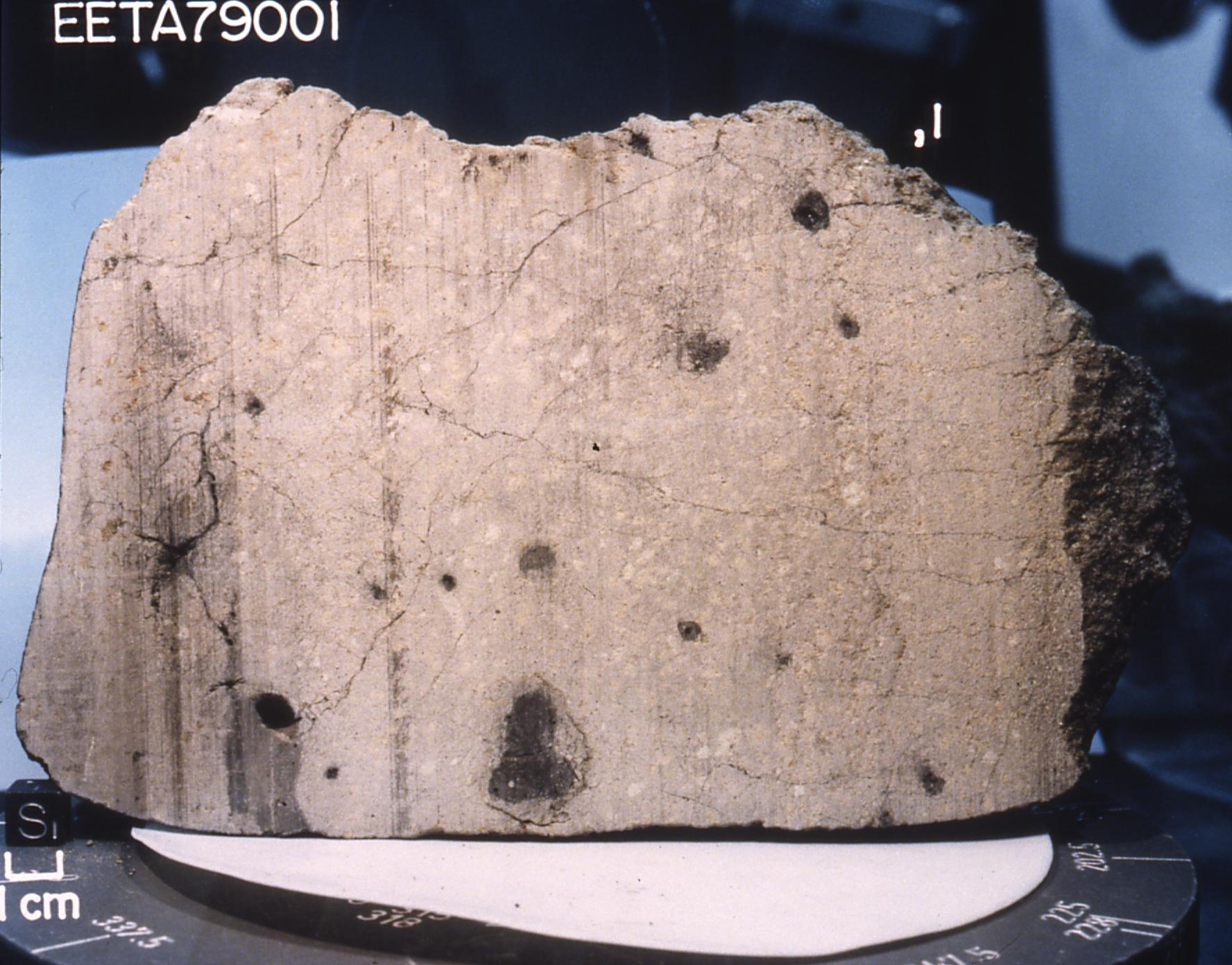 NASA # S80-37631: endcut after first saw cut of EETA79001 martian meteorite. It was found in 1979 in the Elephant Moraine area of Antarctica. Sawing was done with a steel band saw without any lubricant. Vertical stripes are saw marks. The cube in the lower left corner is 1 cm^3.